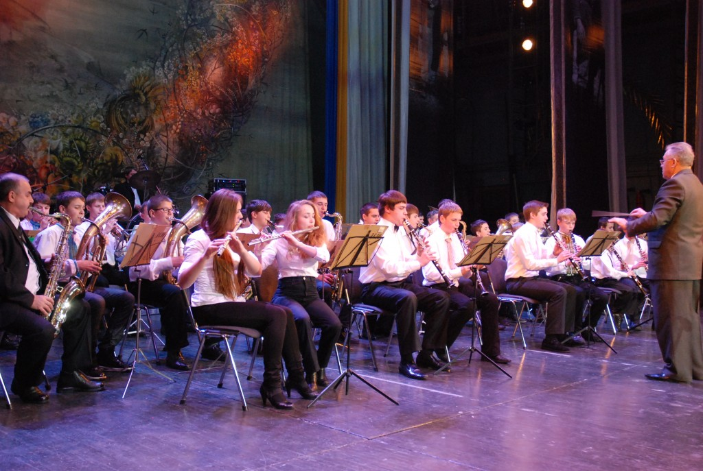 Концерт, фестиваль "Сурми звитяги"